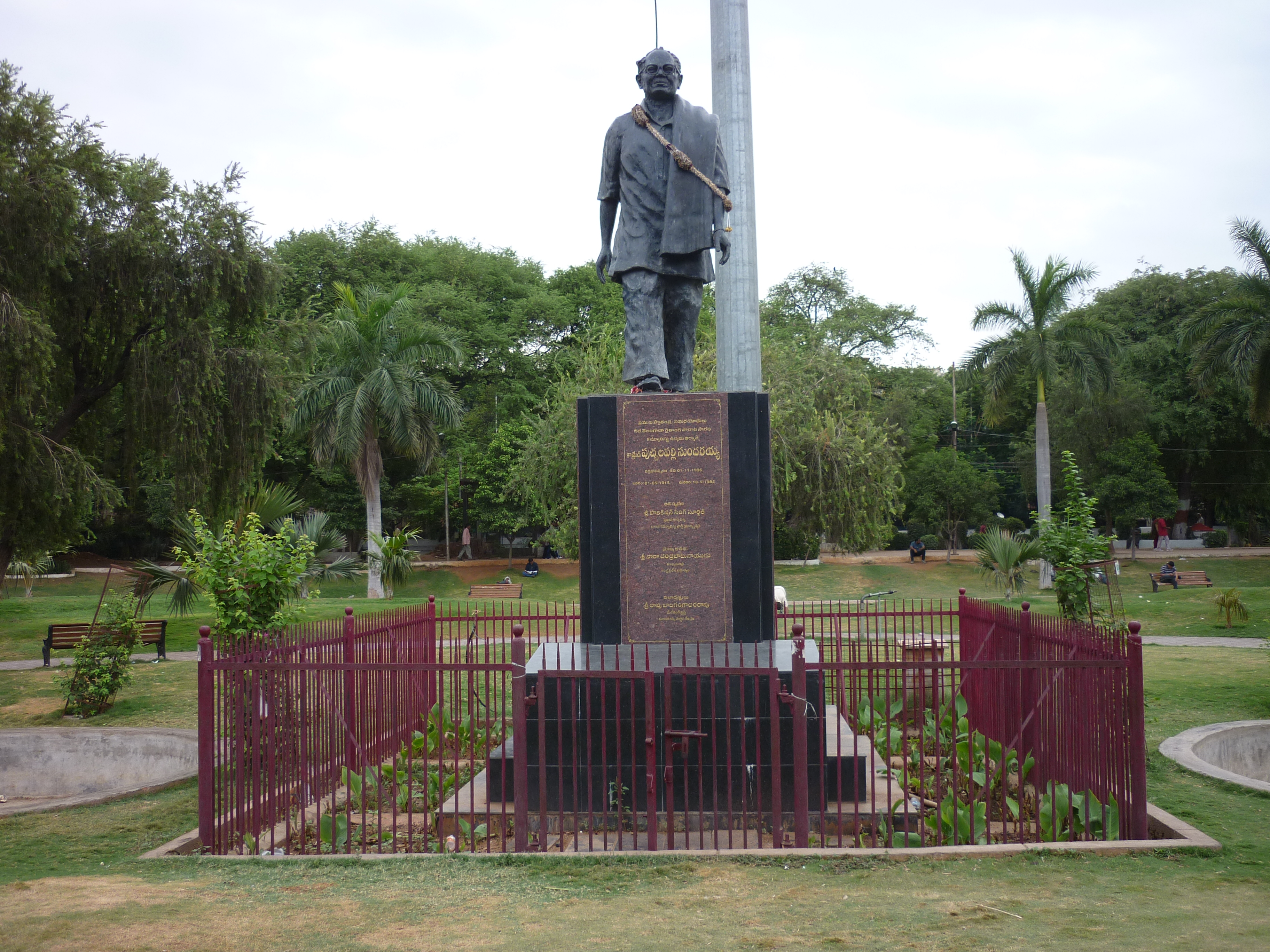 P Sundaraiah park in Hydrabadh